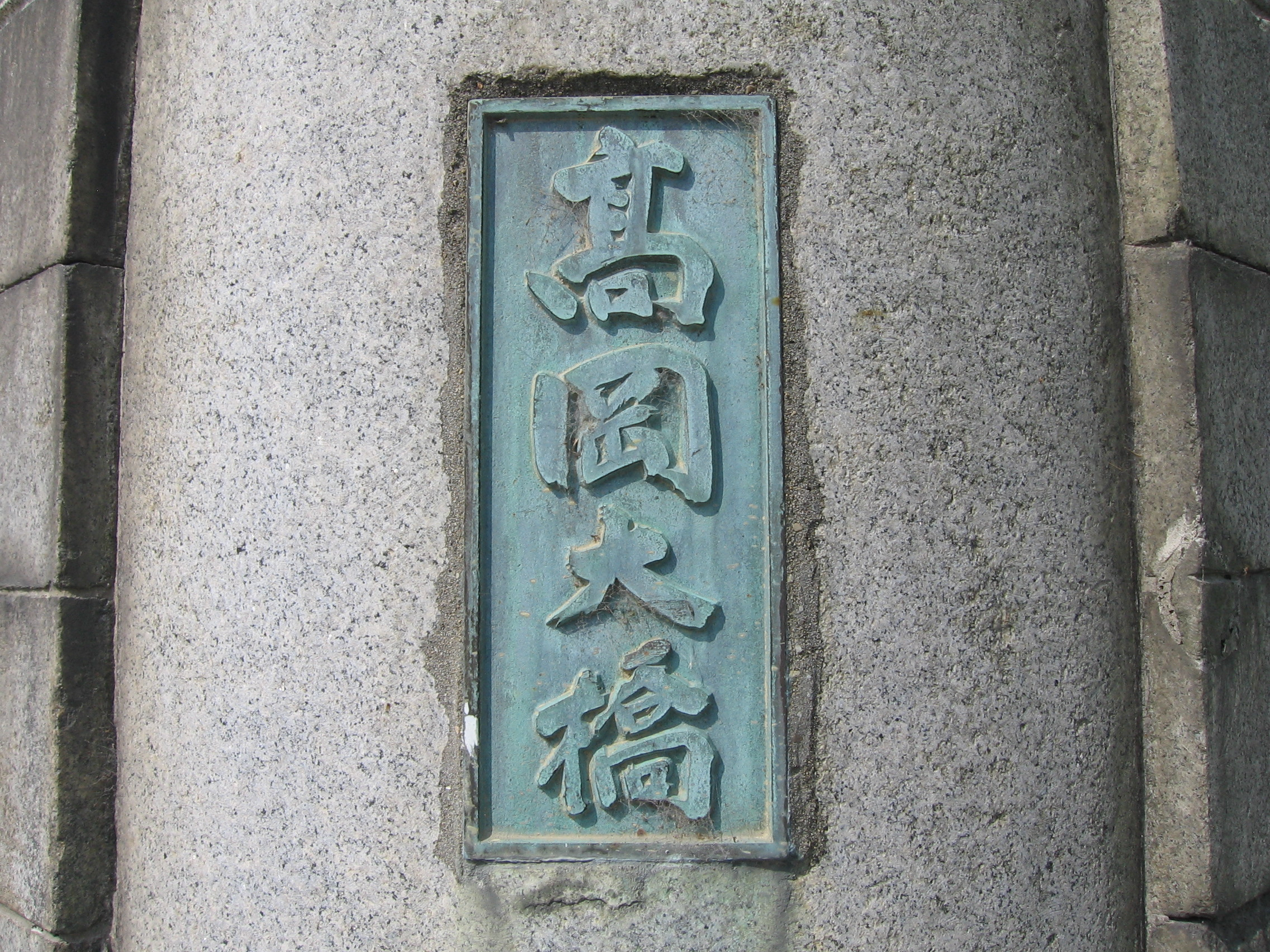 Takaoka Bridge